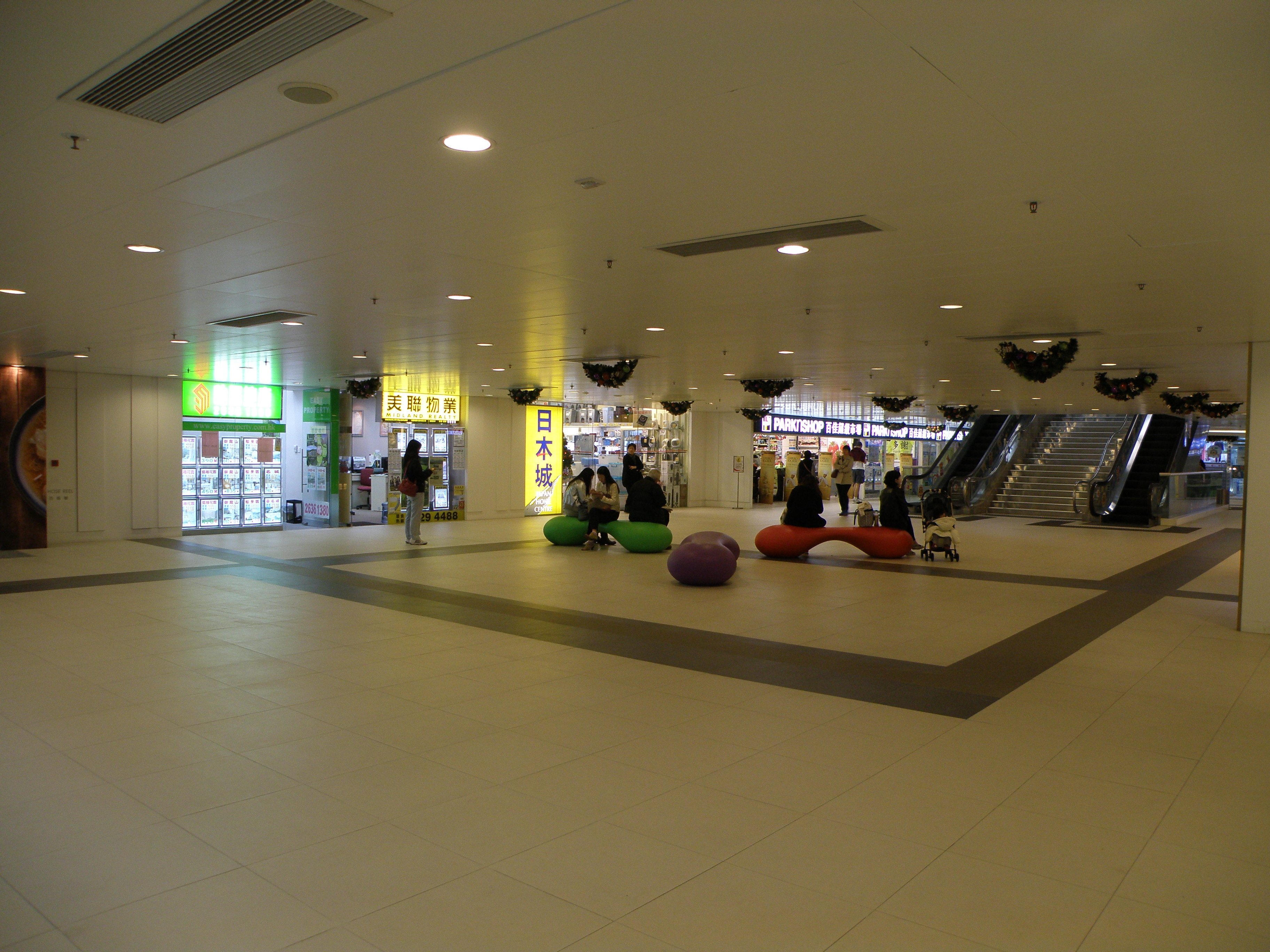 Jubilee Square in Fo Tan, Hong Kong.